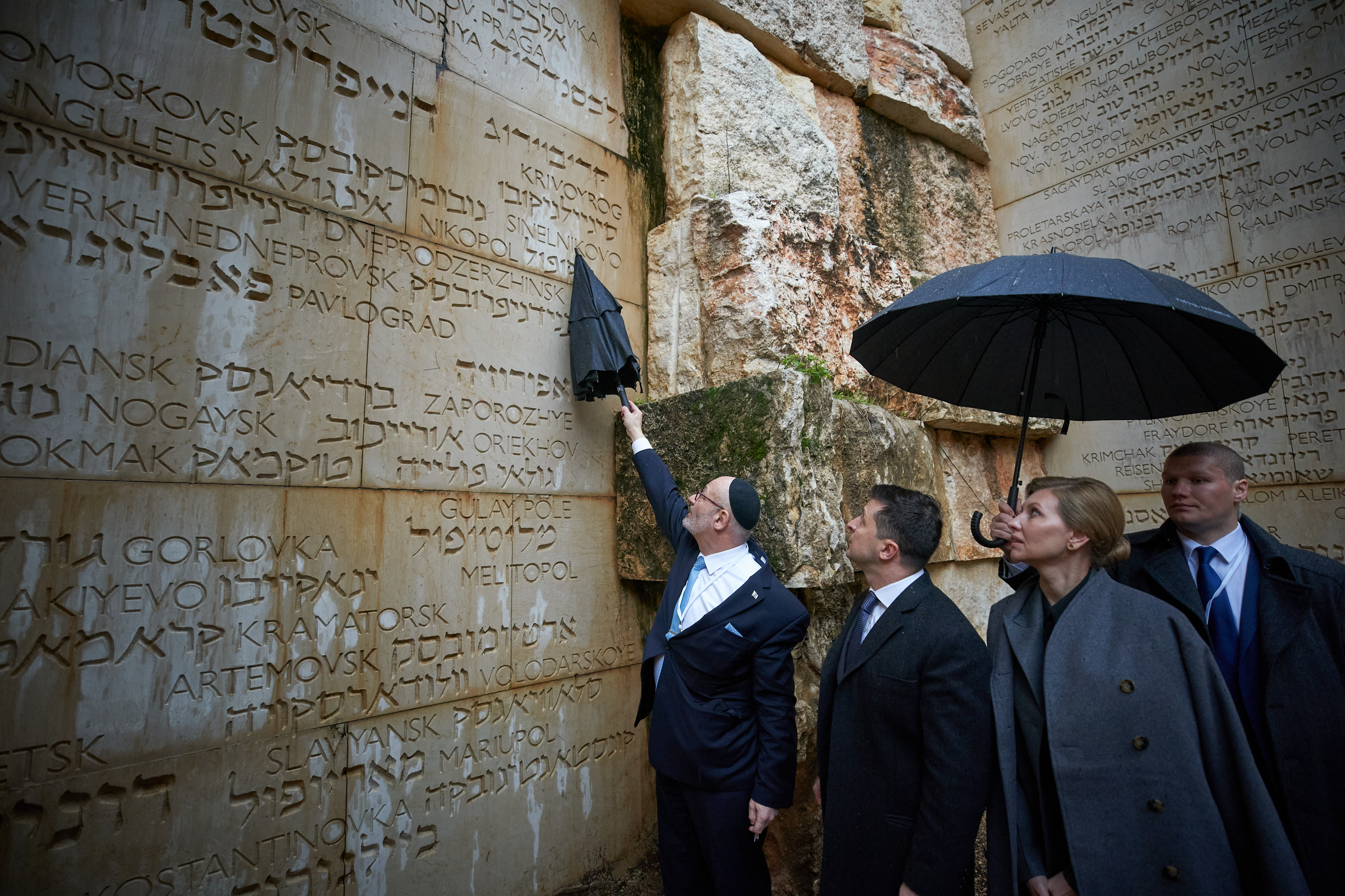 President of Ukraine had a meeting with the Prime Minister of Israel.